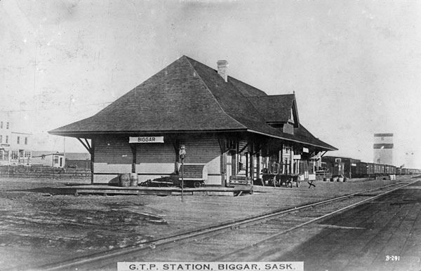 Title / Titre : Grand Trunk Pacific Railway Station / Gare de la Grand Trunk Pacific Railway Company Creator(s) / Créateur(s) : Uknown / Inconnu Date(s) : 1907-1937 Reference No. / Numéro de référence : MIKAN 3393480 Location / Lieu : Biggar, Saskatchewan, Canada Credit / Mention de source : Cara Holdings Limited collection. Library and Archives Canada, e008440249 / Collection Cara Holdings Ltée. Bibliothèque et Archives Canada, e008440249